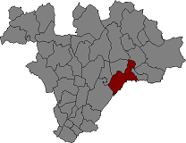 Location of Llinars del Vallès in Vallès Oriental